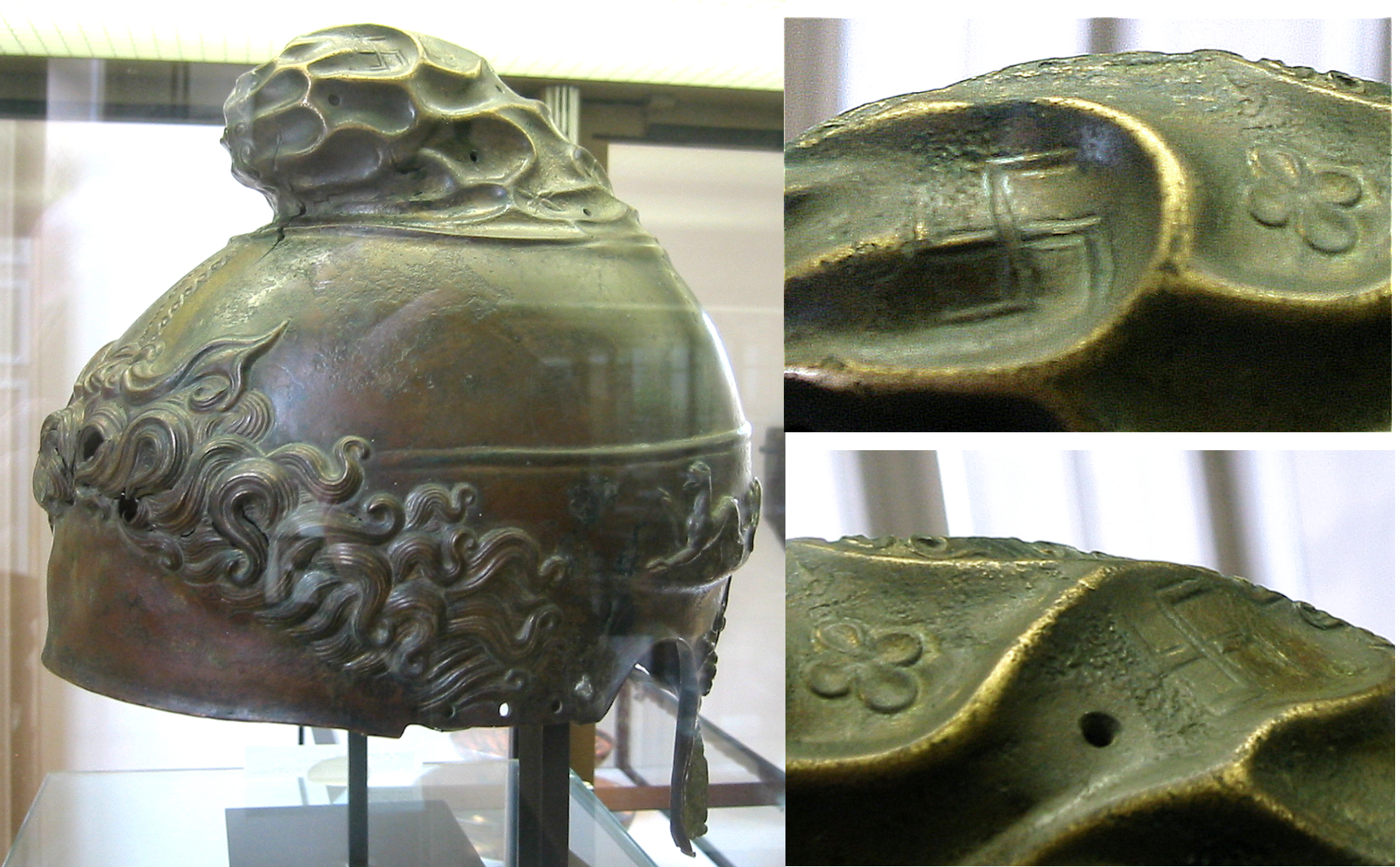 Ancient Macedonian helmet with swastika marks, 350-325 BCE, found at Herculanum, Taranto. Personal photograph at the Cabinet des Medailles, Paris. ეტრუსკული მუზარადი ძვ.წ.აღ. IV ს. Other version